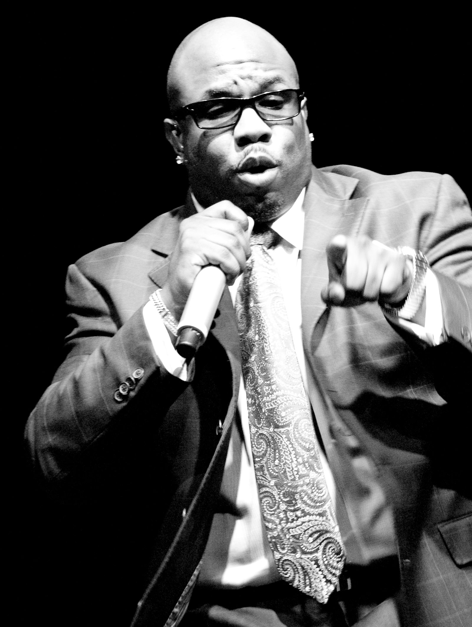 Wanya Morris (of the group Boyz II Men) live in 2008.